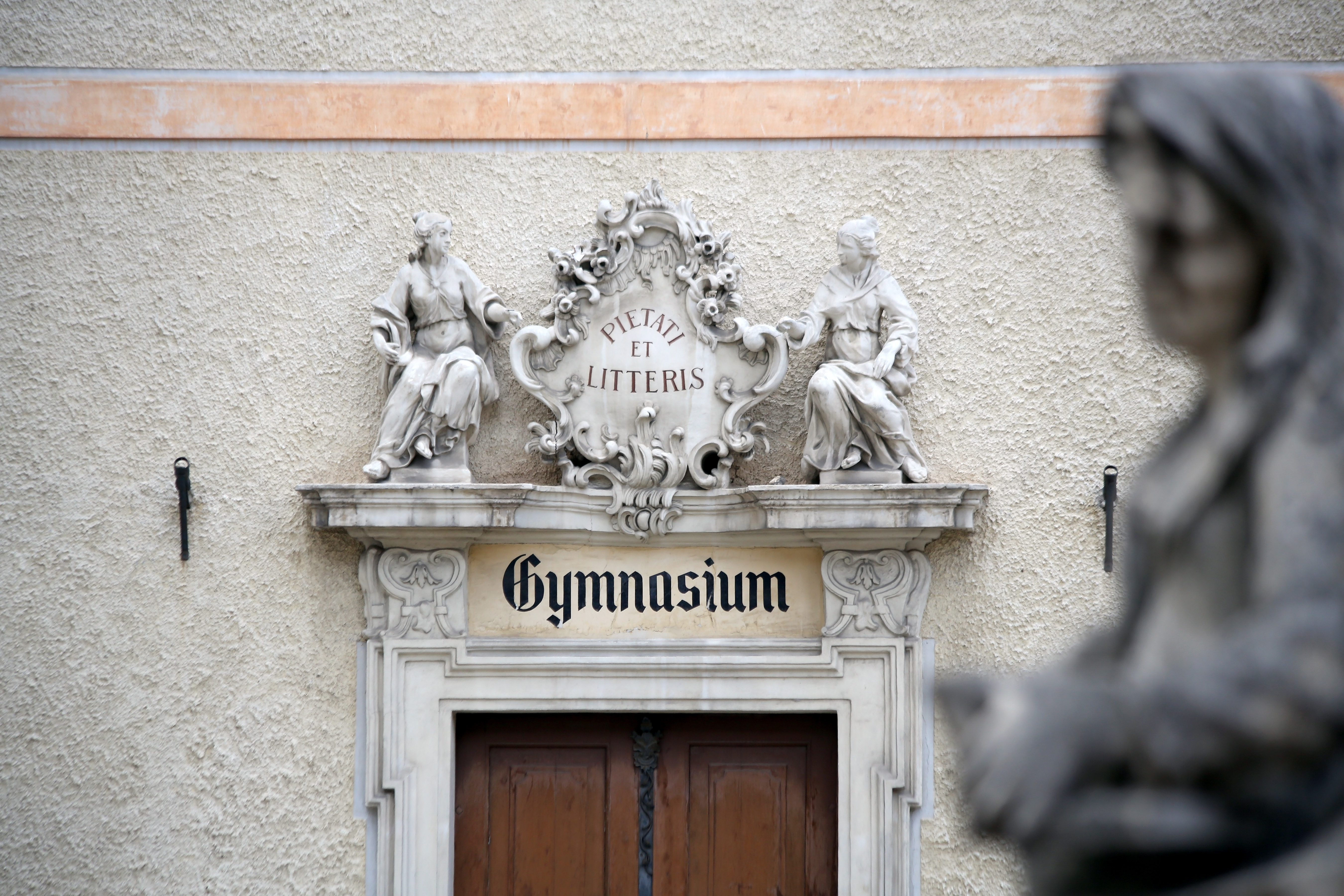 Gymnasium at Piarist Church and Marian column in Vienna, Austria.